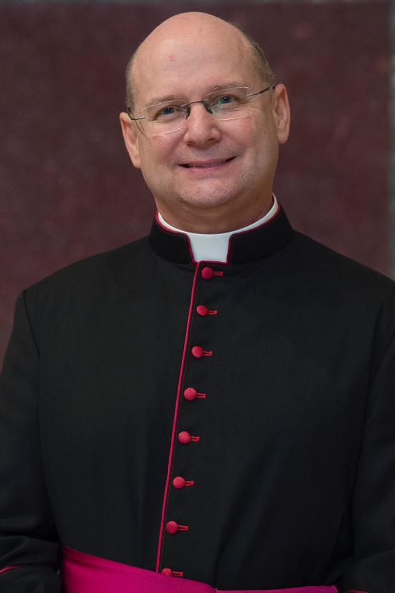 Official portrait of Archbishop Peter Wells